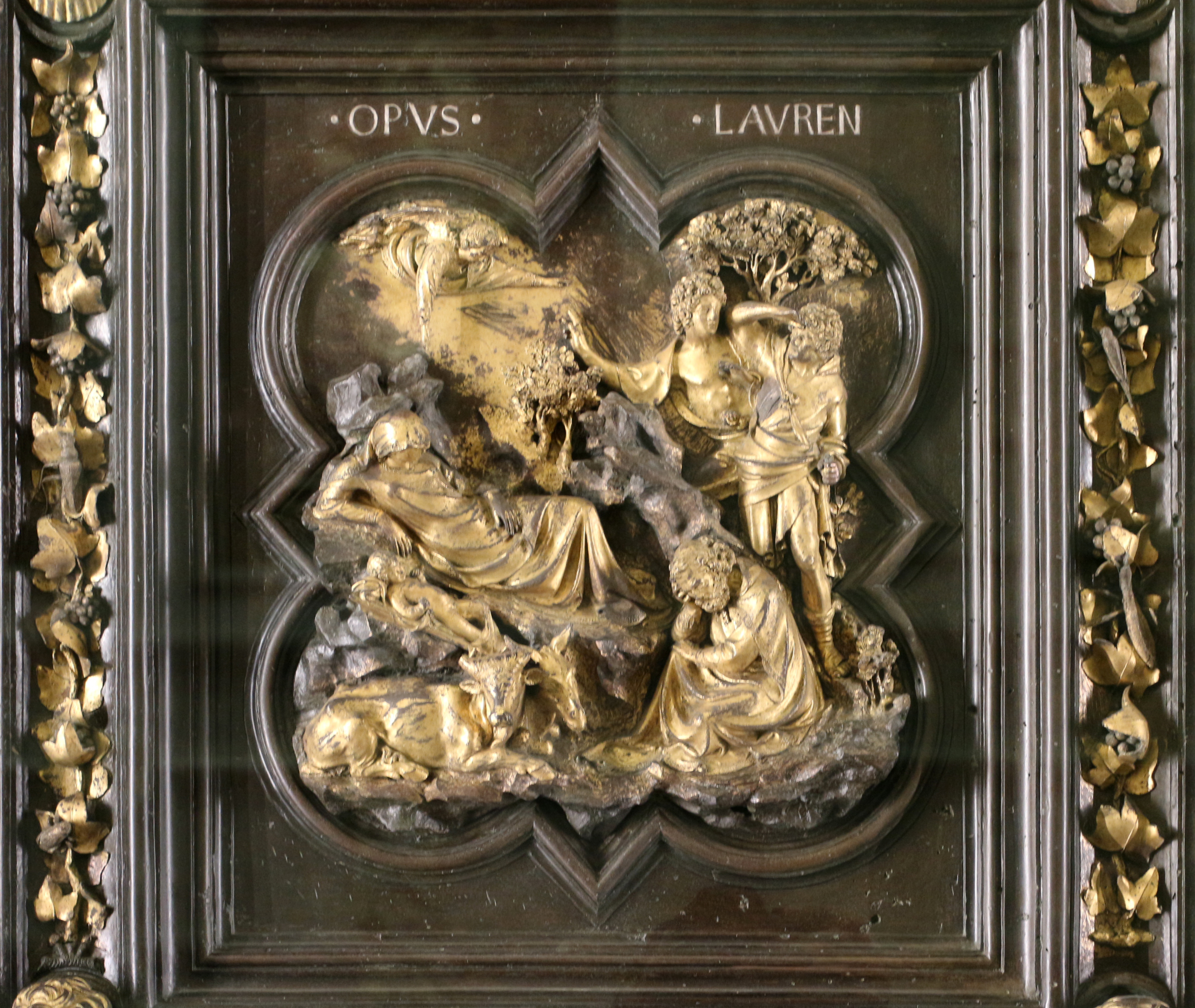 North doors of the Baptistry (Florence)